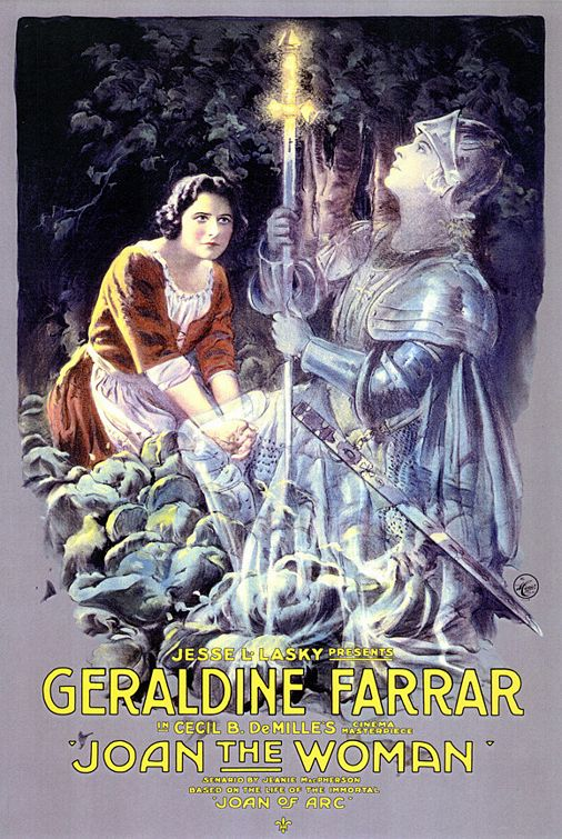 Movie poster for Joan the Woman